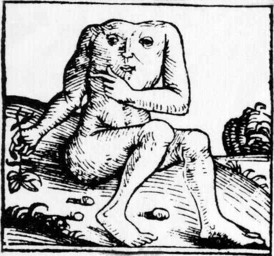 This is a clipping from page 12 of the historical document: Title: Schedelsche Weltchronik